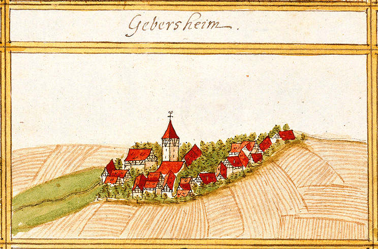 View of Gebersheim, Leonberg, from the forest register books created by Andreas Kieser